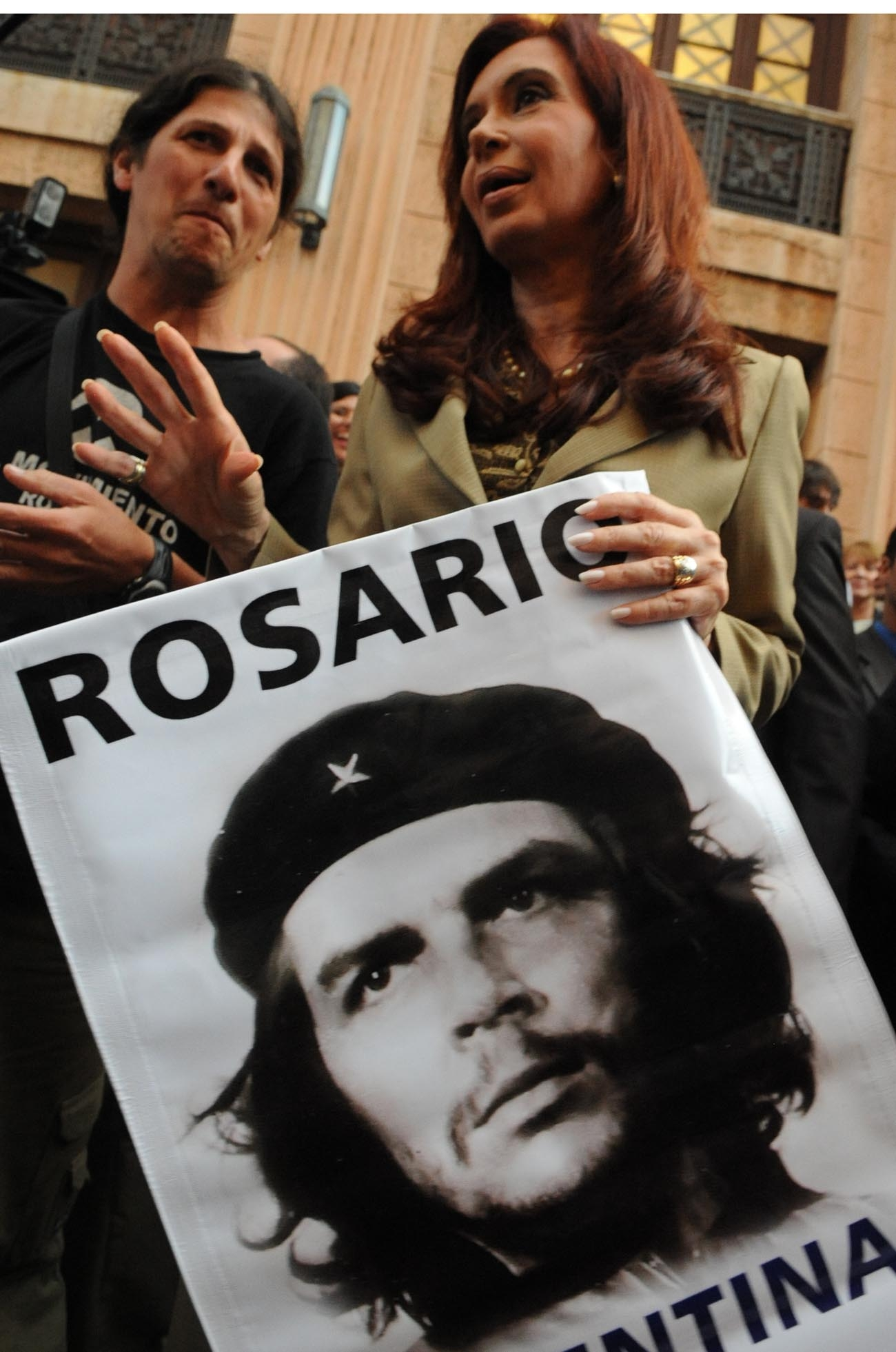 President of Argentina, Cristina Fernandez, with poster of Che Guevara, at the Havanna University. Cuba.